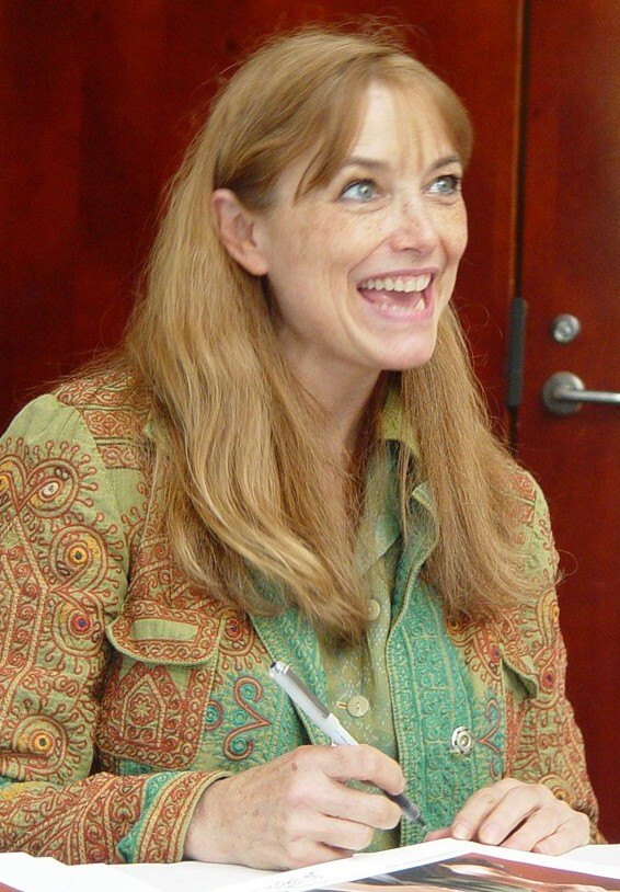 American actress Karen Allen at the 2006 Dallas Comic Con.